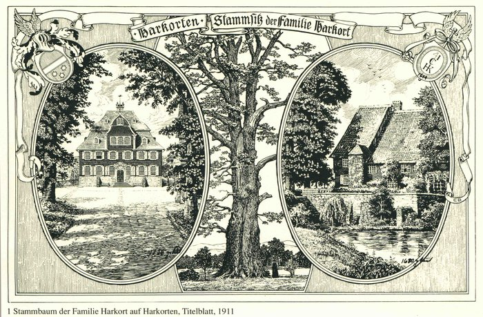 Stammbaum der Famile Harkort mit 600-jähriger Eiche im Park